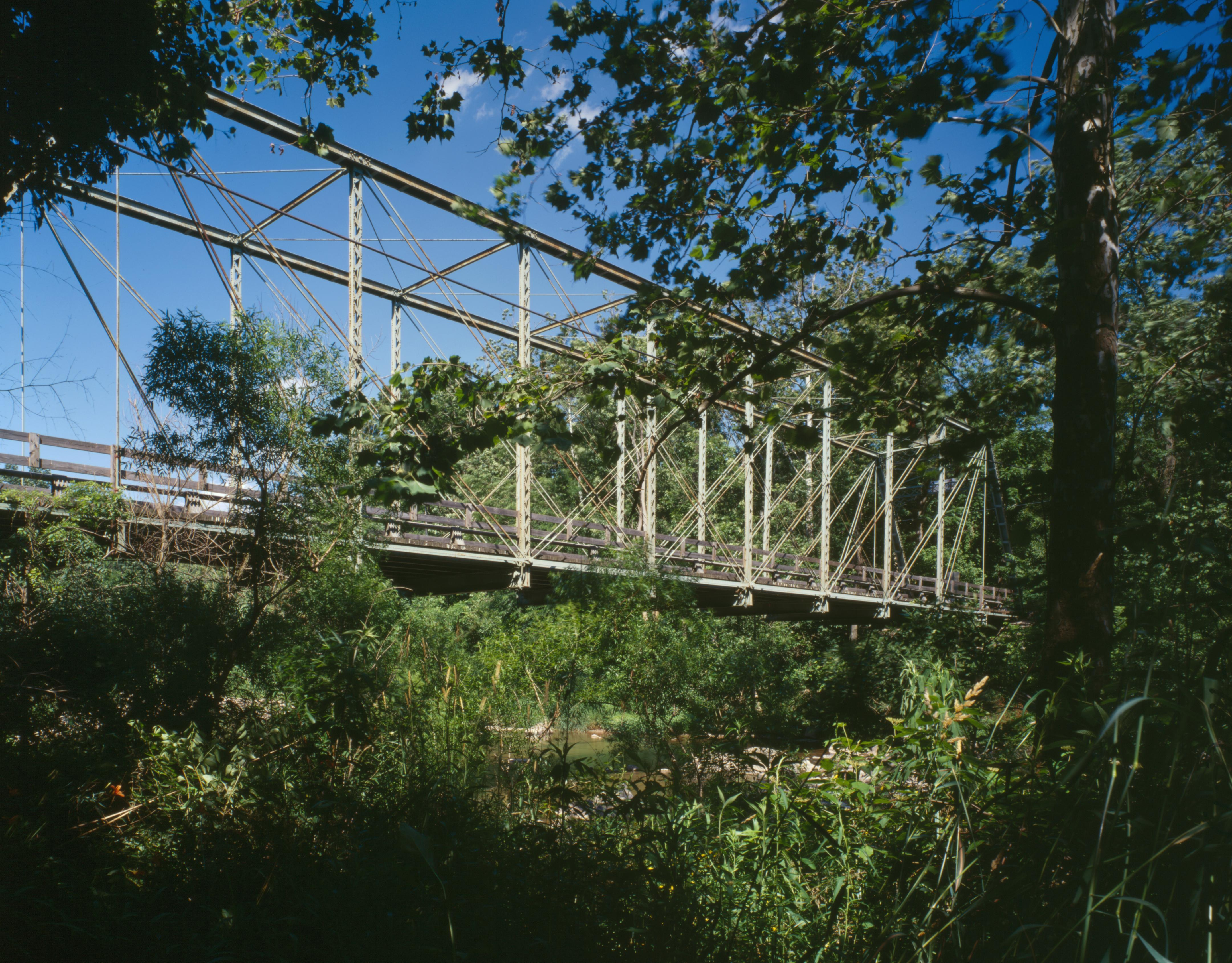 Side of the Bridge in Washington Township, which carries Legislative Route 66150 over Bermudian Creek in Washington Township, York County, Pennsylvania, United States. Built in 1884, the bridge is listed on the National Register of Historic Places.